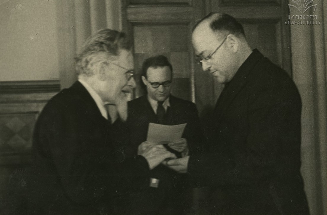 Mikhail Kalinin - Soviet politician, a member of the USSR Supreme Council (left), with Kandid Charkviani - Soviet Union and Georgian SSR Party Member, First Secretary of Communist Party Central Committee of the Georgian SSR 1938-1953.